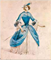 Description: Violetta's costume for the premiere of La traviata, 1853